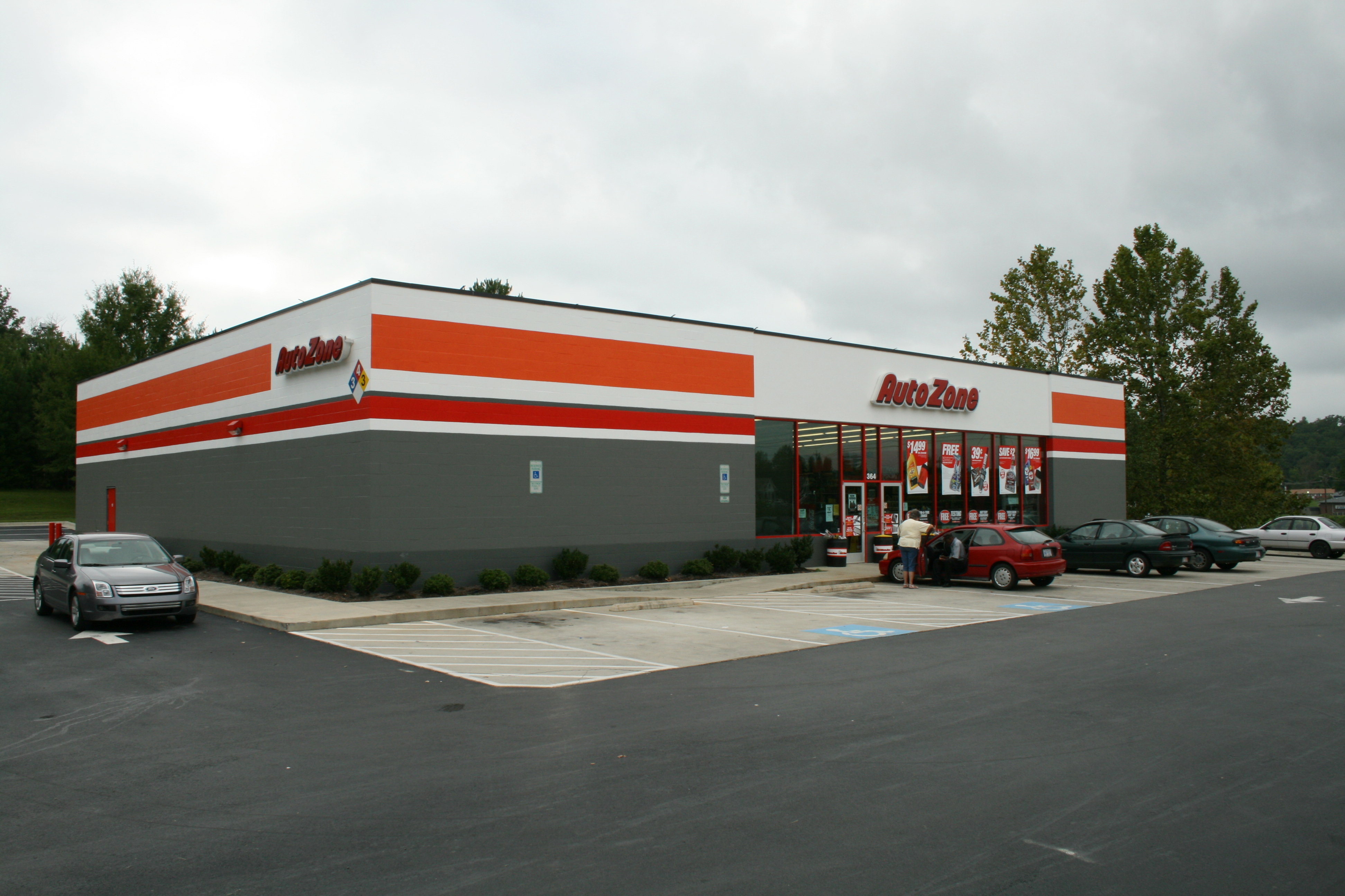 AutoZone, an automotive parts shop, at 364 South Churton Street in Hillsborough, North Carolina.